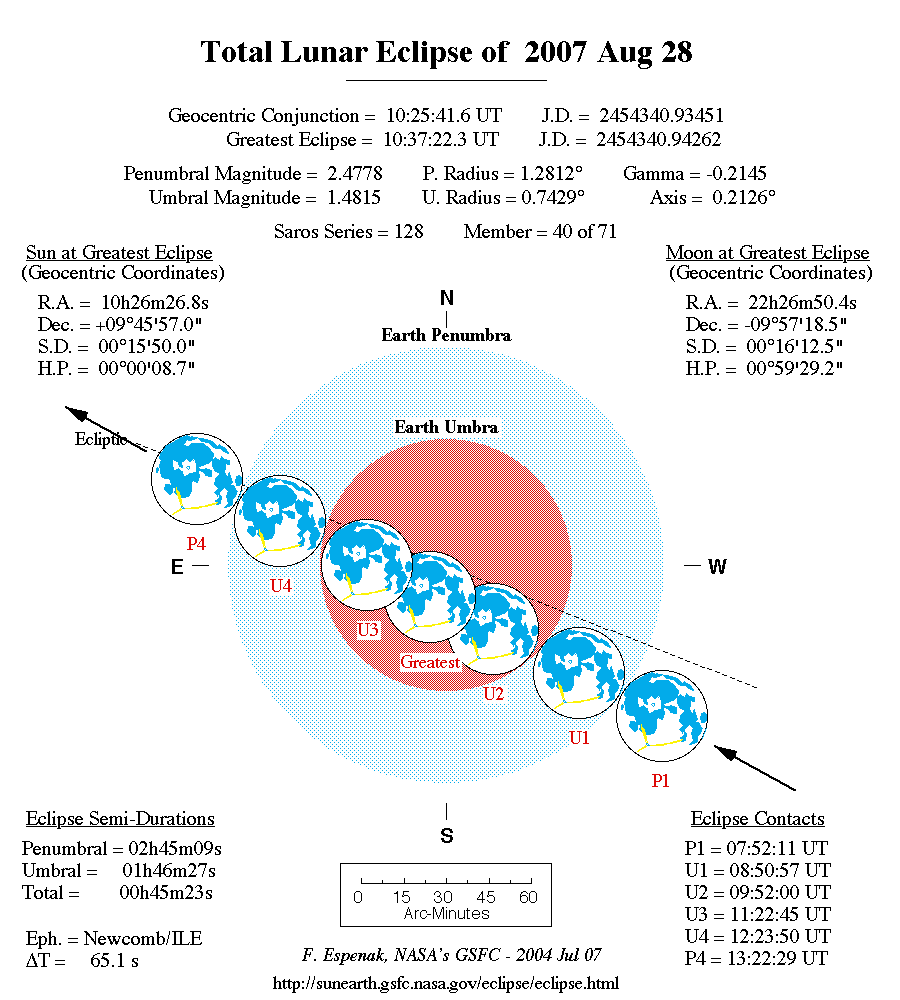 Sketch of the 2007-08-28 lunar eclipse.